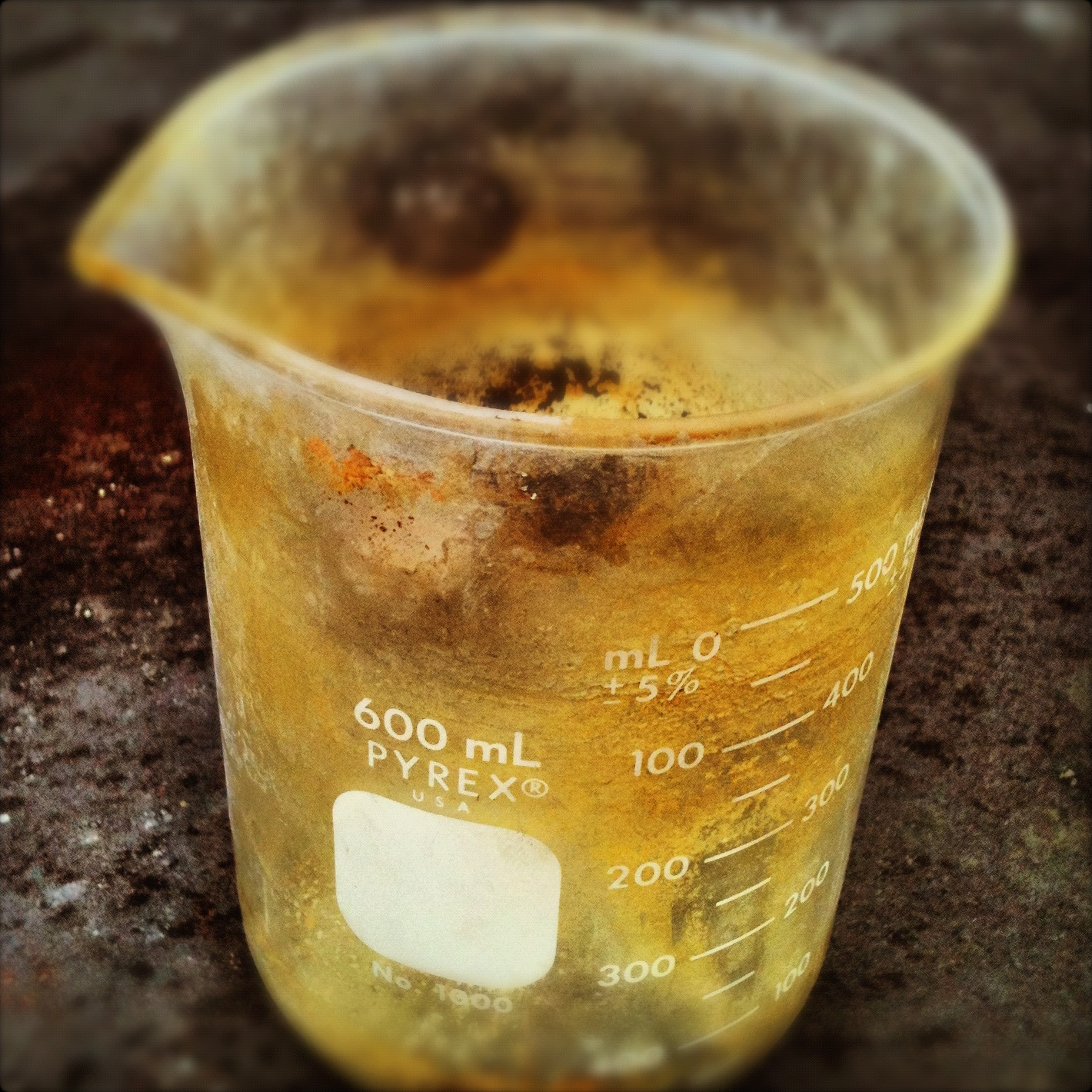 中文（香港）: Beaker with chemicals